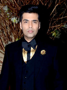 Manish Malhotra’s 50th birthday bash